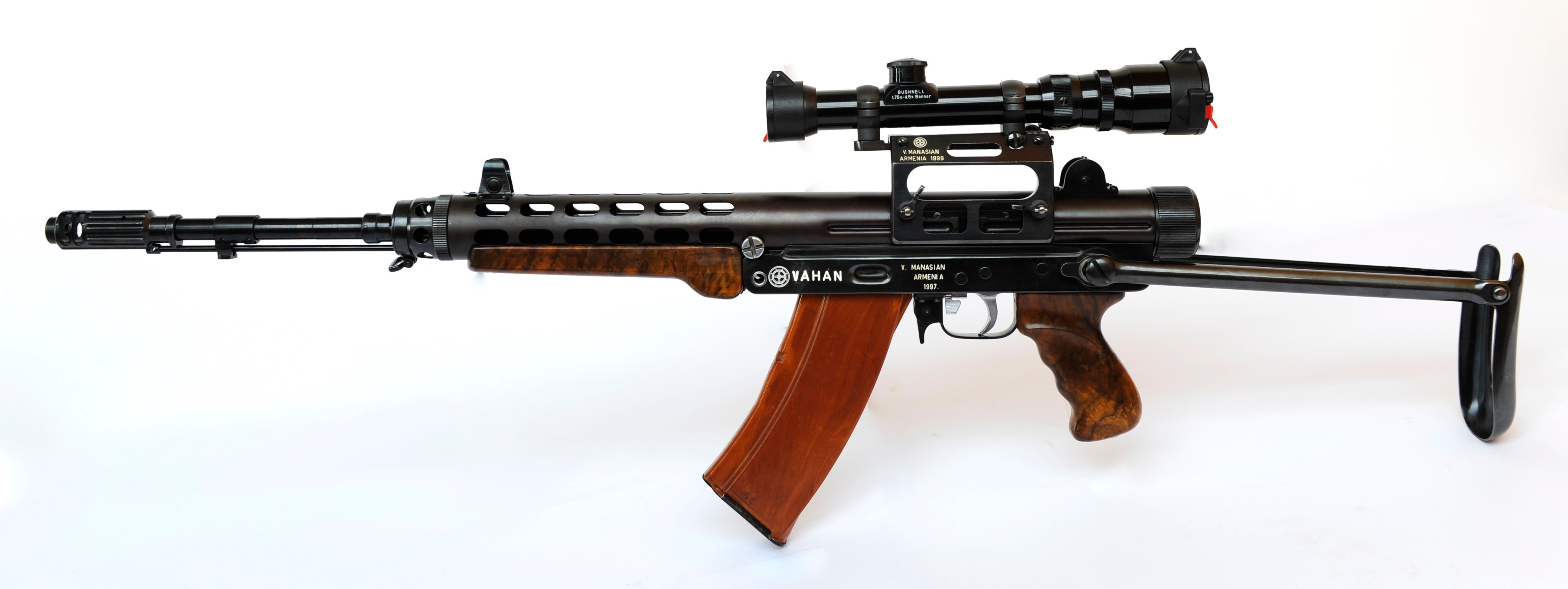 Vahan rifle gun side view